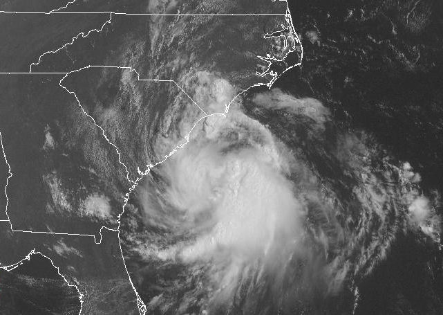 Tropical Depression Three of 2008 off the Carolina Coast, photographed in visible light by GOES Storm Floater 3 at 1415Z on 19 July.